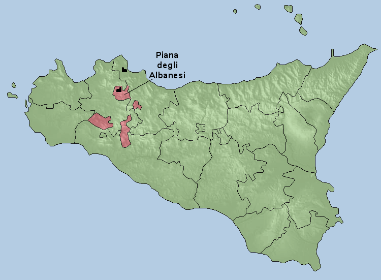 Map of the eparchy of Piana degli Albanesi (^^: Cathedral of a metropolitan diocese, –^: Cathedral of a suffragan diocese, ^–: Co-cathedral)